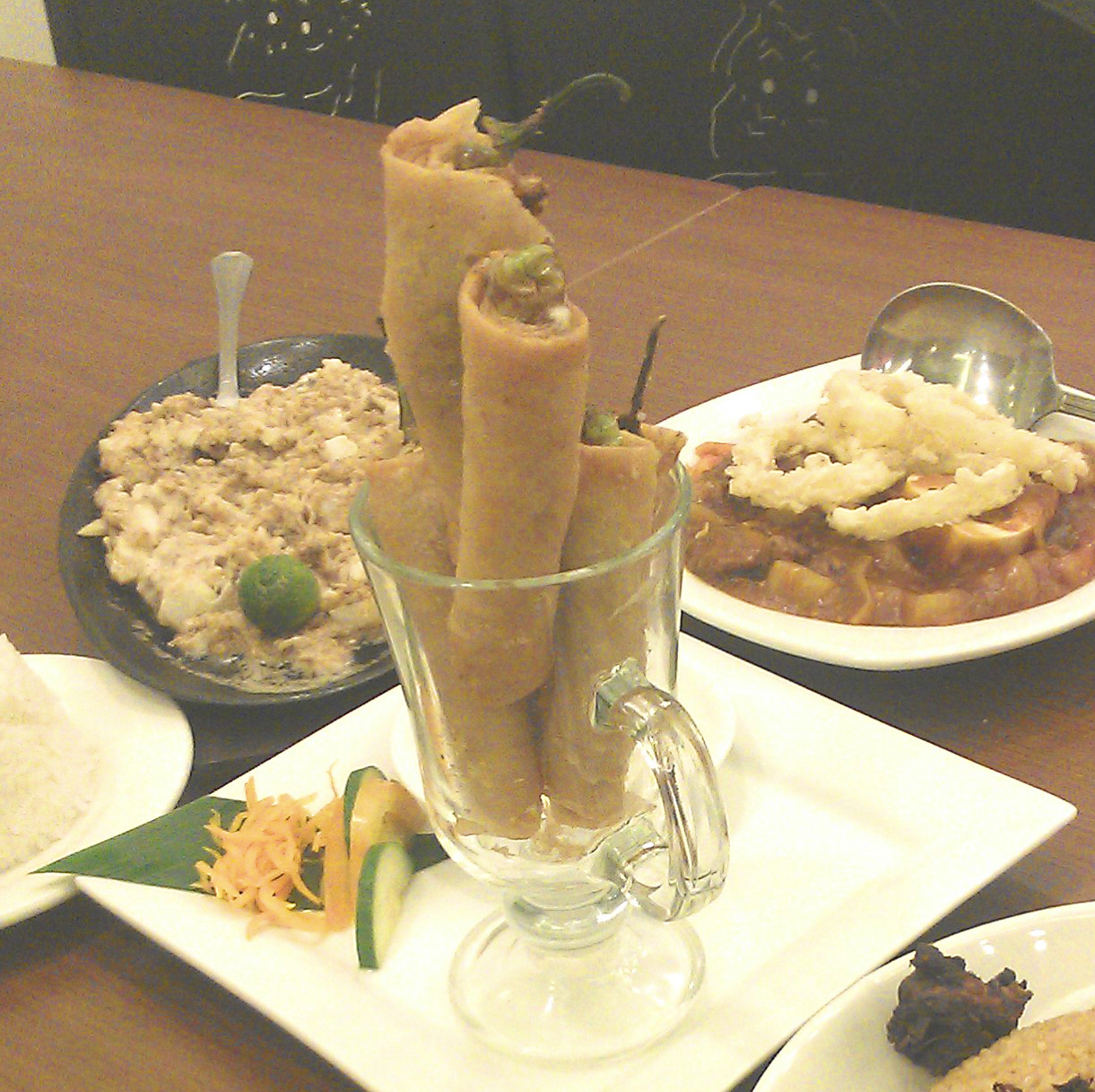 Dinamita Jalapeño Lumpia's 2013 (cropped)